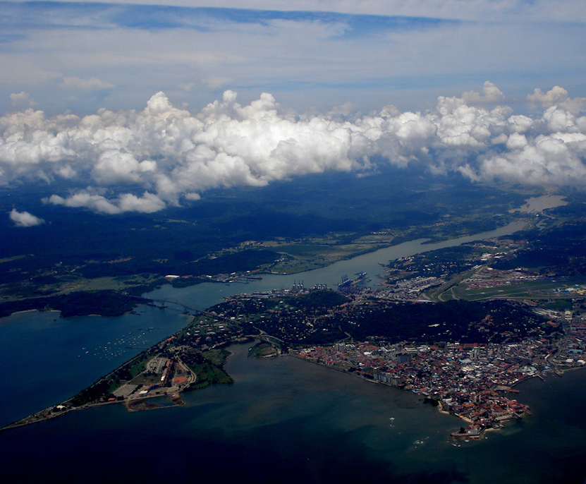 Pacific Side Entrance of the Panama Canal. In the foreground part of Panama city is visible together with the Bridge of the Americas. In the background (right) Miraflores Locks are also visible.